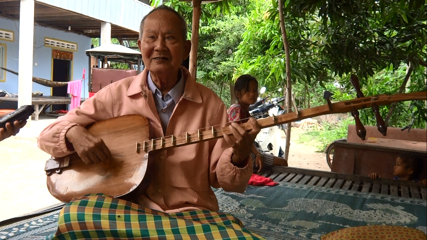 Sitting on a wooden bed in Tropeang Kok village, Takeo province, Brach Chhoun uses both hands, full of wrinkles, to play. Brach Chhoun has enjoyed a great reputation as a musician, playing a traditional Cambodian instrument called the “chapei.” He is retired these days, and his health is declining, but his name is still among the masters of Cambodian music.